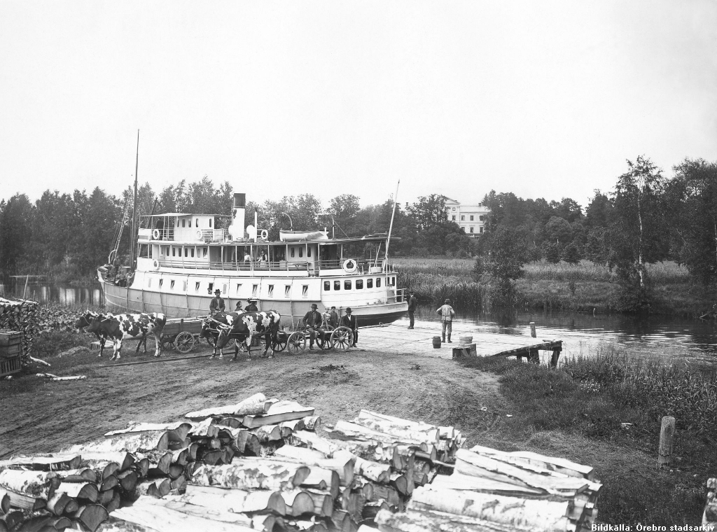 Kvismare canal at the manor Segersjö, Sweden